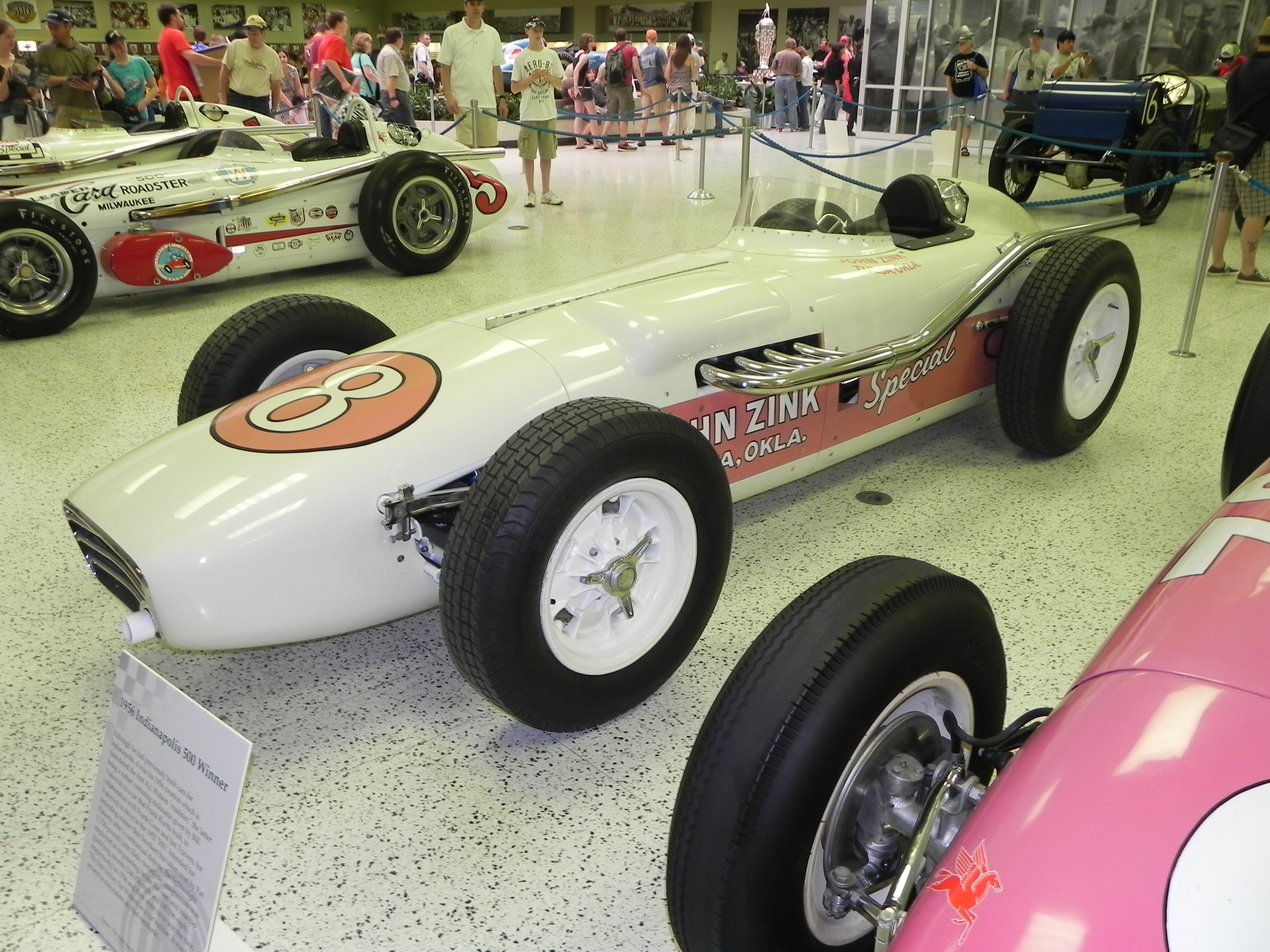 Image of the winning car of the 1956 Indianapolis 500 (Pat Flaherty). Photo was taken at the Indianapolis Motor Speedway Hall of Fame Museum, during the month of May 2011, at the 100th Anniversary "Ultimate Indianapolis 500 Winning Car Collection."